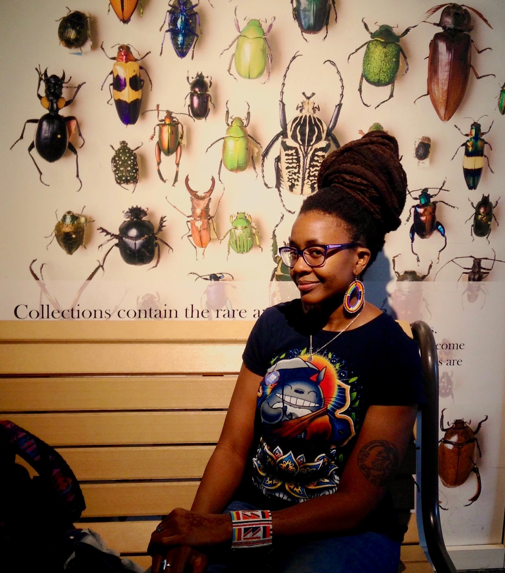 Nnedimma Okorafor at Butterfly Conservatory